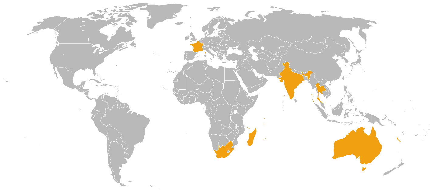 Air Austral destinations.